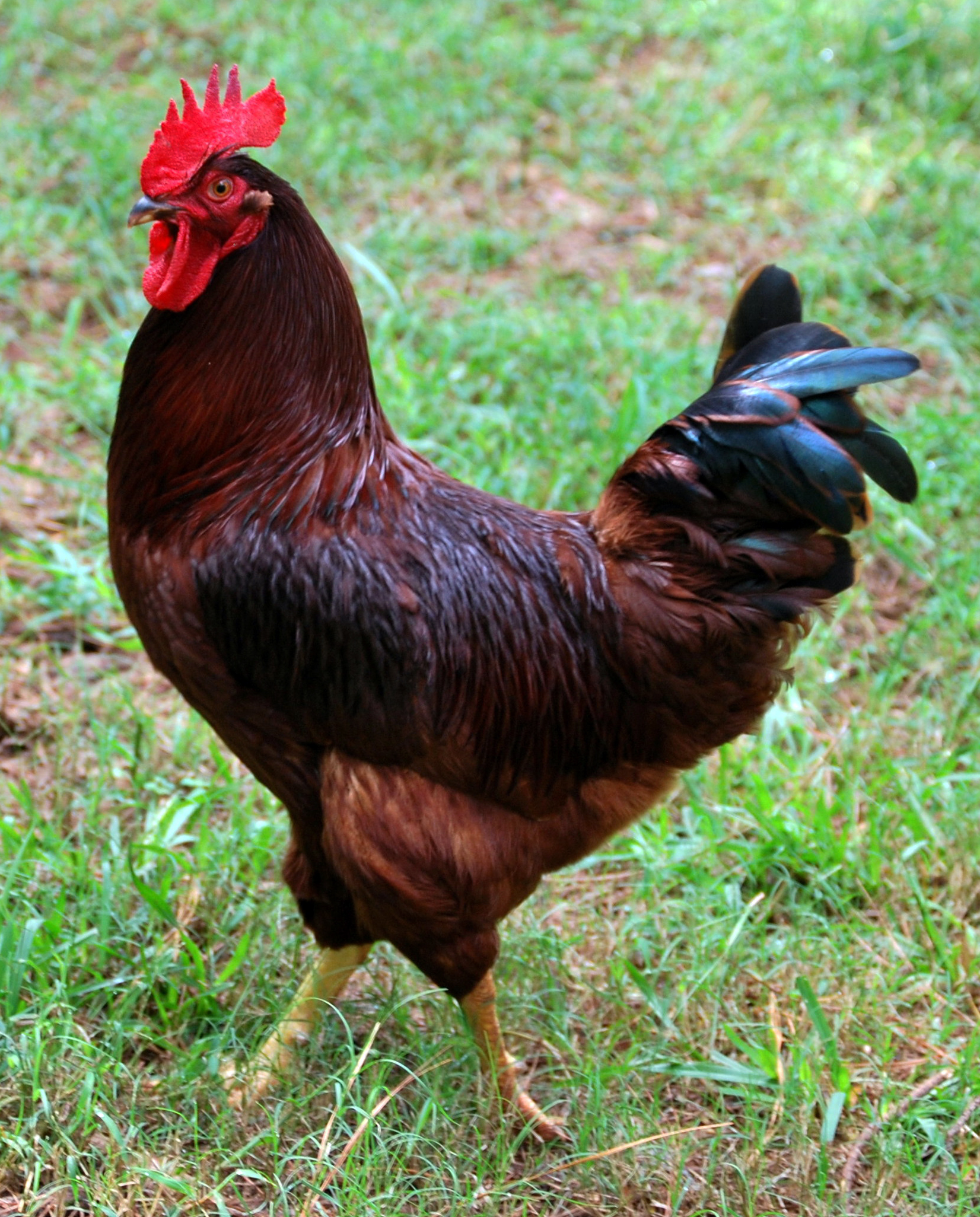 Cropped version of by User:HeatherLion